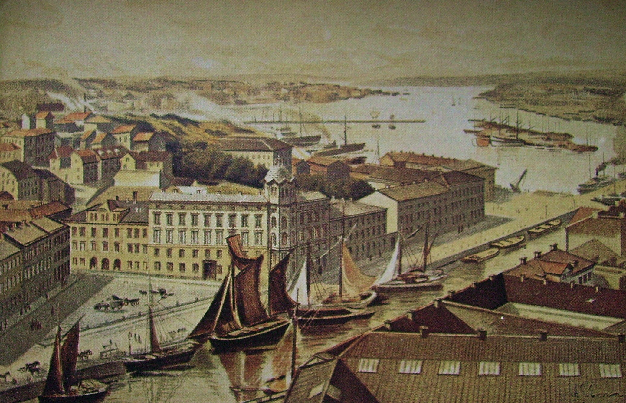 Picture of a painting of Stora Hamnkanalen in Göteborg (1891)